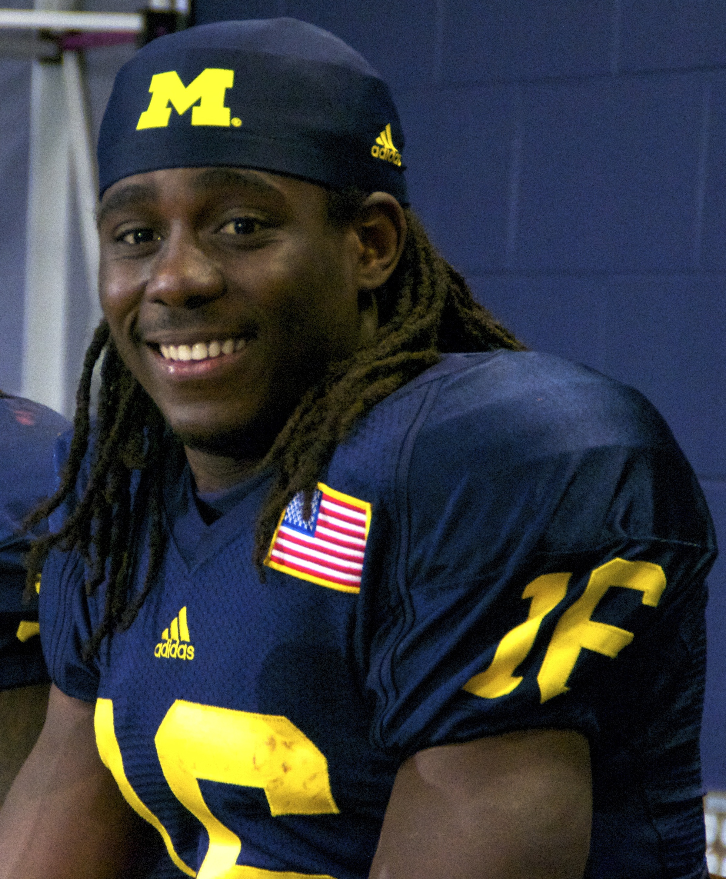 Denard Robinson during a press conference after the Nebraska game on November 19, 2011.